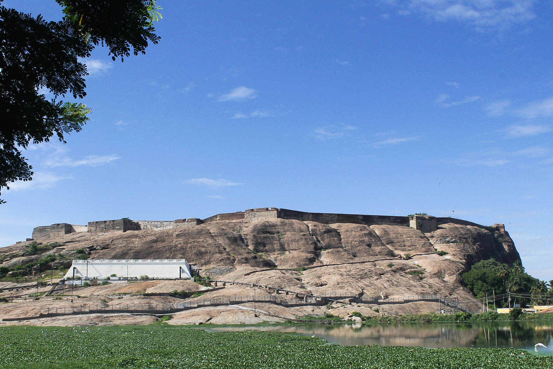 Dindigul Rock Fort. View from north. Also known as Dindigul Malai Kottai. It is a 17th-century hill fort, built by Madurai Nayaks. It is situated in the town of Dindigul in the state of Tamil Nadu in India.